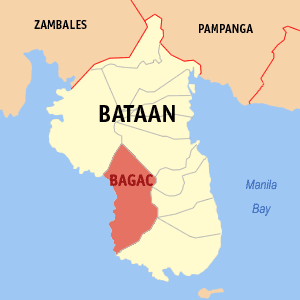 Map of Bataan showing the location of Bagac